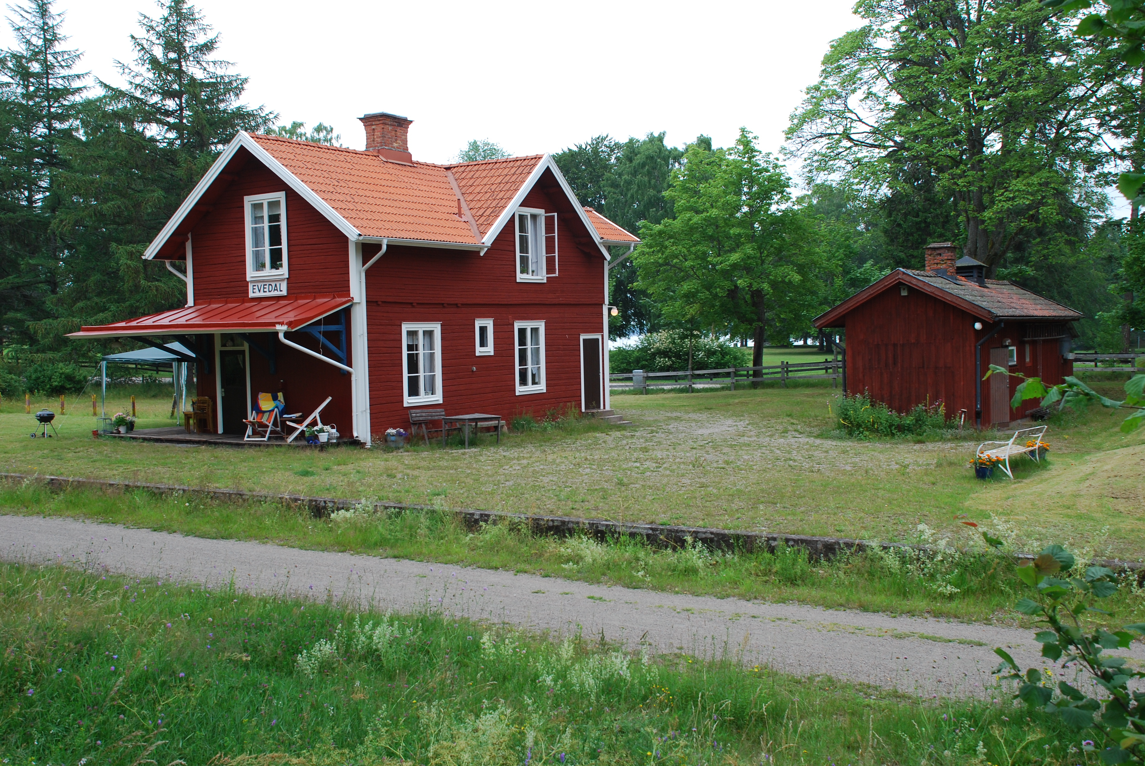 Railway station Evedal, of the defunct narrow-gauge Växjö-Åseda-Hultsfred railroad